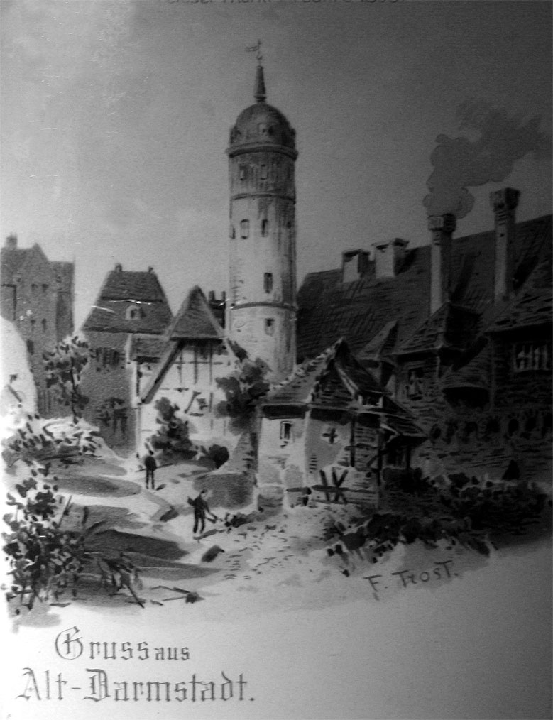 White tower 1863 in Darmstadt.